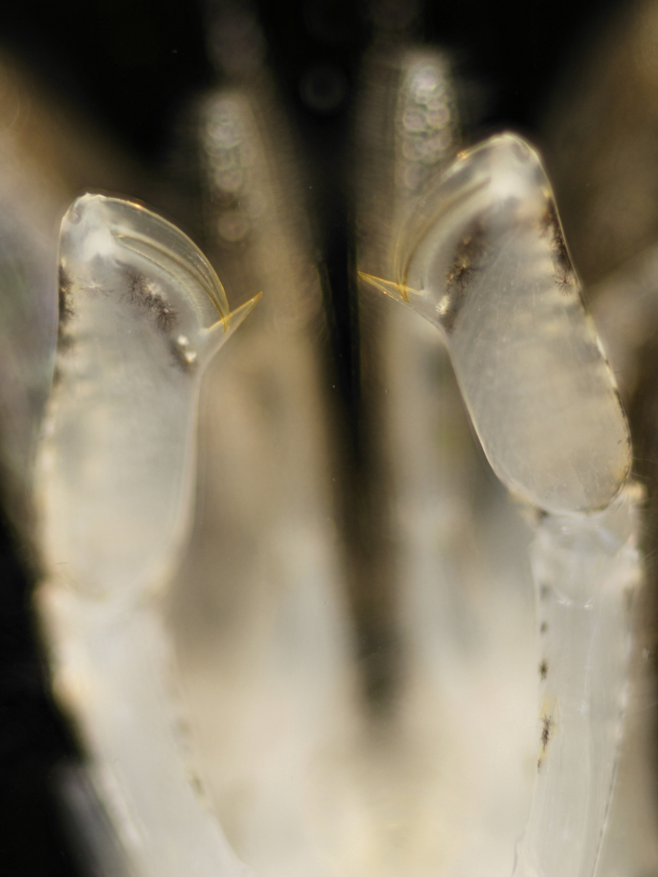 Chelae of Brown Shrimp. Studio photographLength 5 mm, width 2 mm.